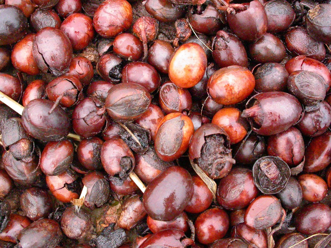 Seed of Vitellaria paradoxa, the Shea tree. Next to a field in southern Burkina Faso.